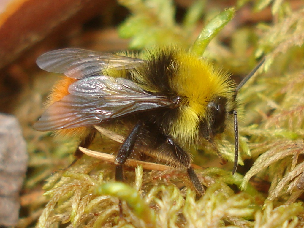 Early bumblebee